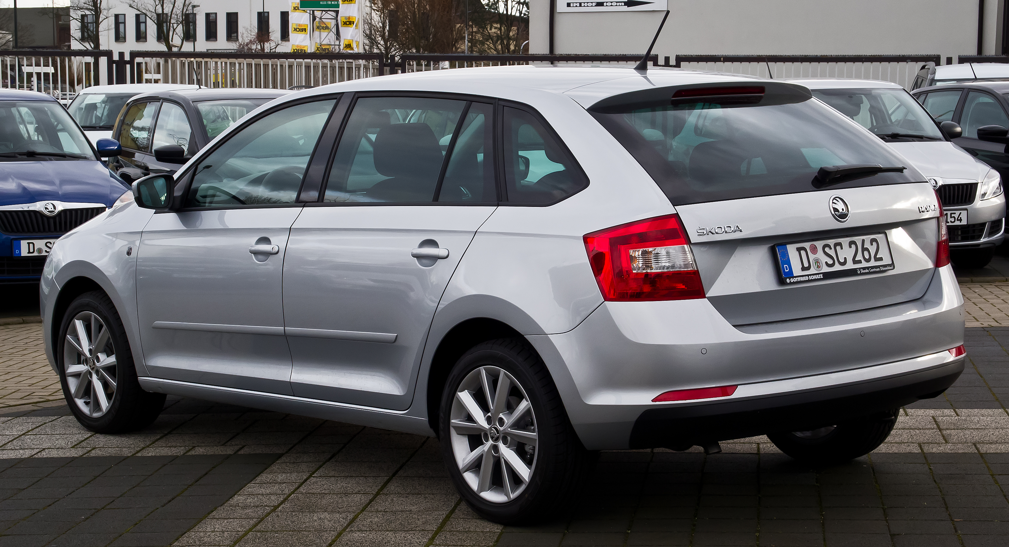 Skoda Rapid Spaceback 1.2 TSI Style Plus